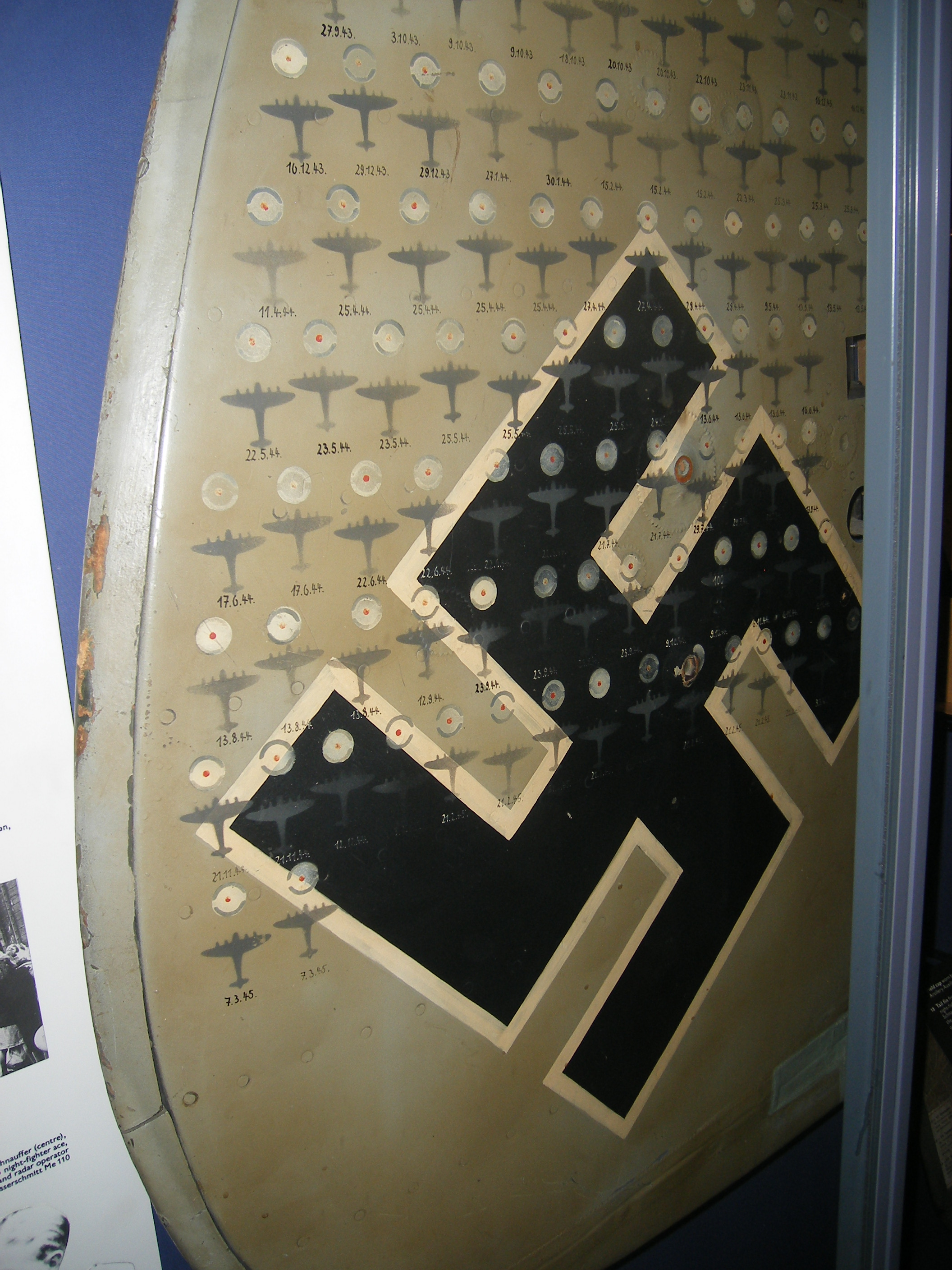 The left-hand side vertical stabiliser of Heinz-Wolfgang Schnaufer's Bf 110 night fighter aircraft. It displays all of his 121 victories during World War II. Displayed at the Imperial War Museum, London. The right-hand side is on display at the Australian War Memorial close to Canberra. A similar not publicly exhibited left-hand side tail fin of a crashed spare aircraft survived the war in Germany. It was to be auctioned in 2015 by Dominic Winter Auctioneers Ltd. in Cirencester, Glos..